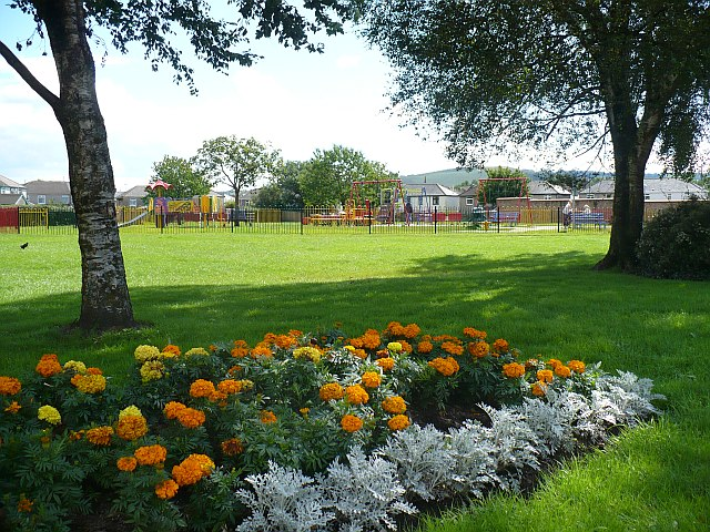 Recreation ground and play area, Church Street, Bedwas